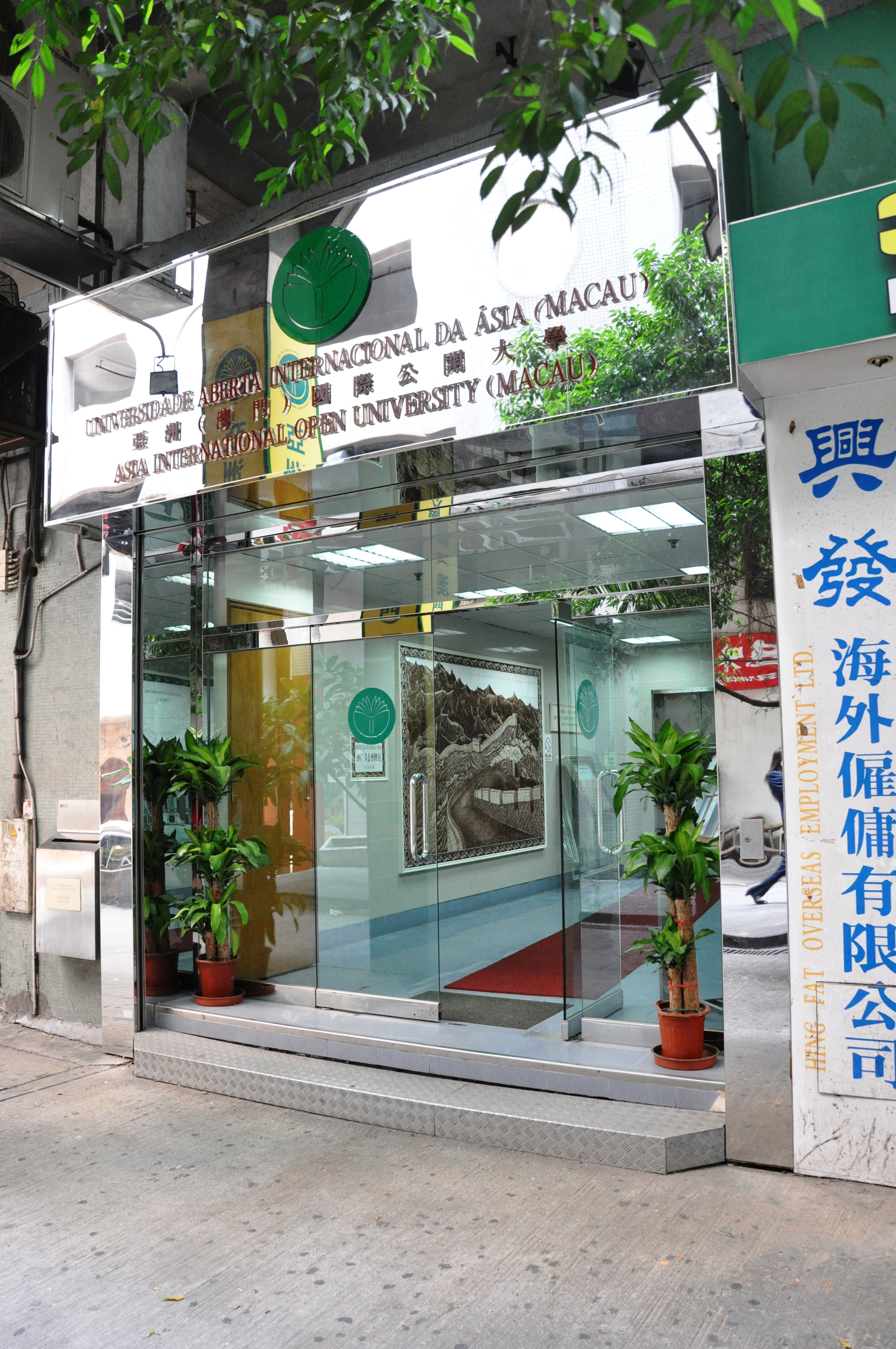 Asia International Open University